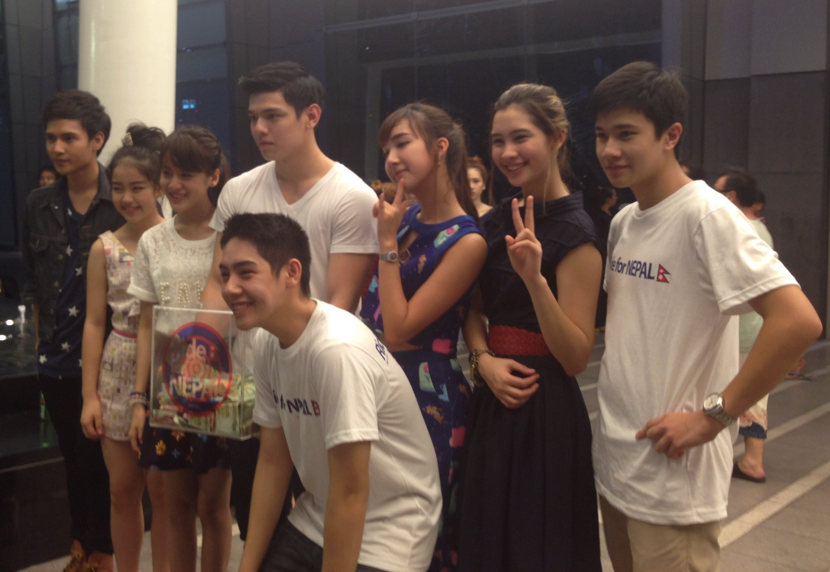 Casts of Sud Kaen Saen Ruk.